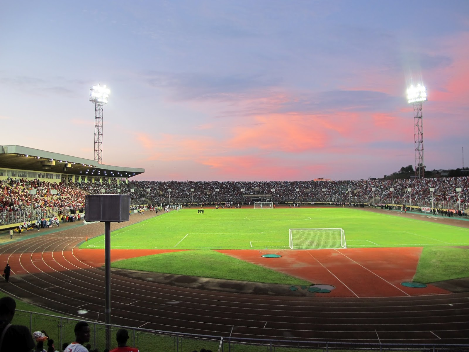 Liberia, Africa